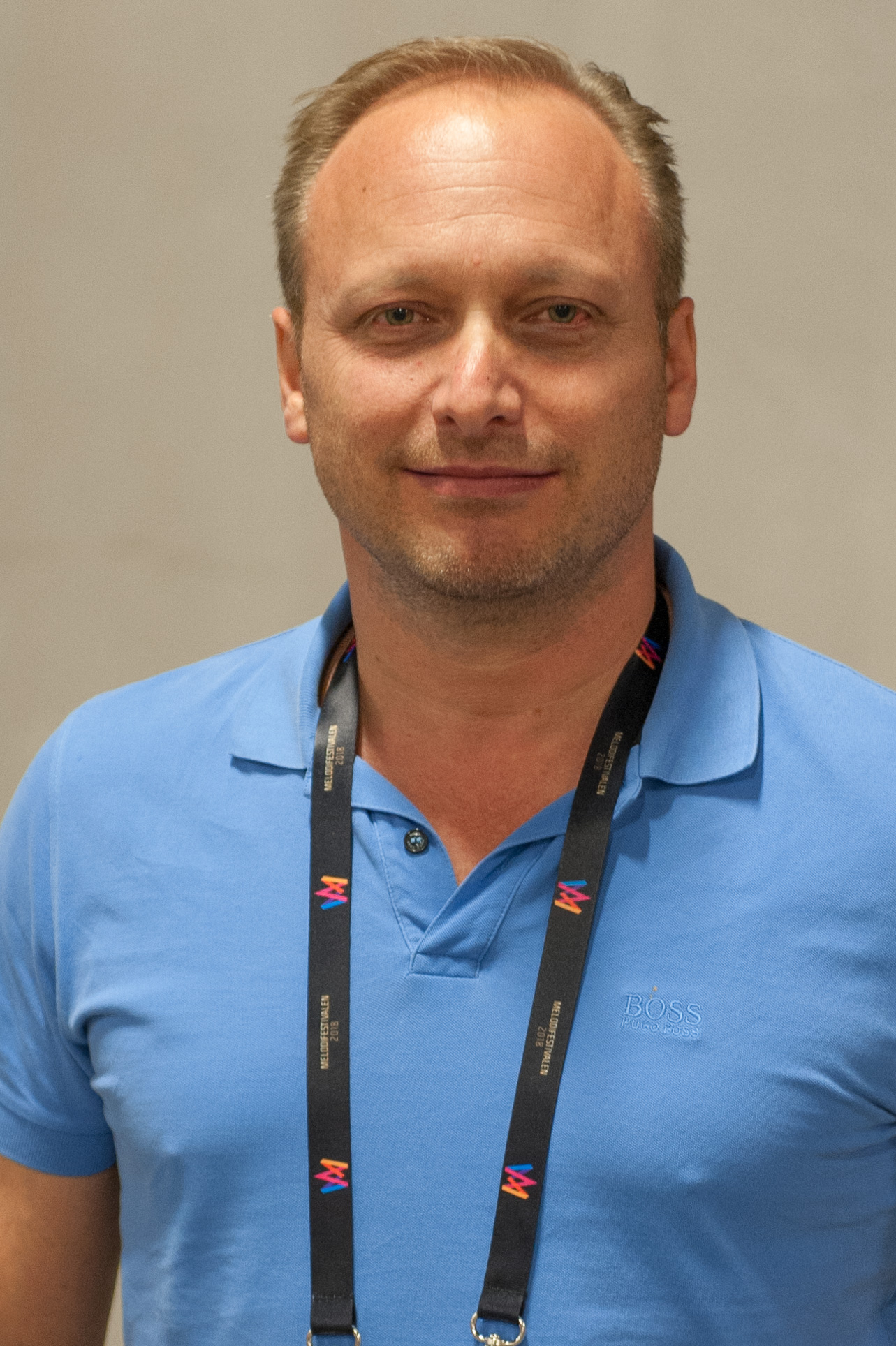 Melodifestivalen 2018 final i Stockholm